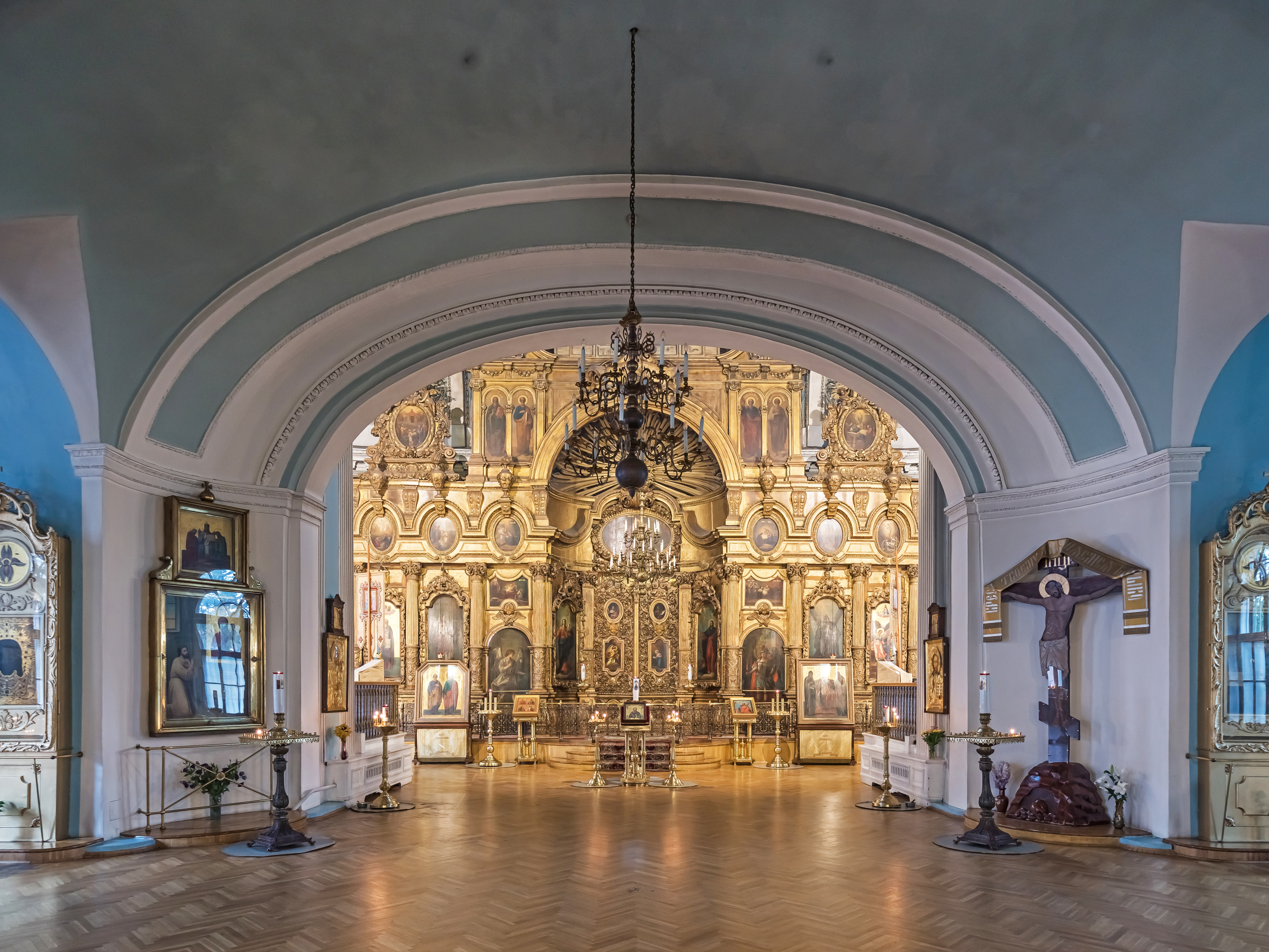 Interior of St. Andrew Cathedral on Vasilievsky Island in Saint Petersburg, Russia